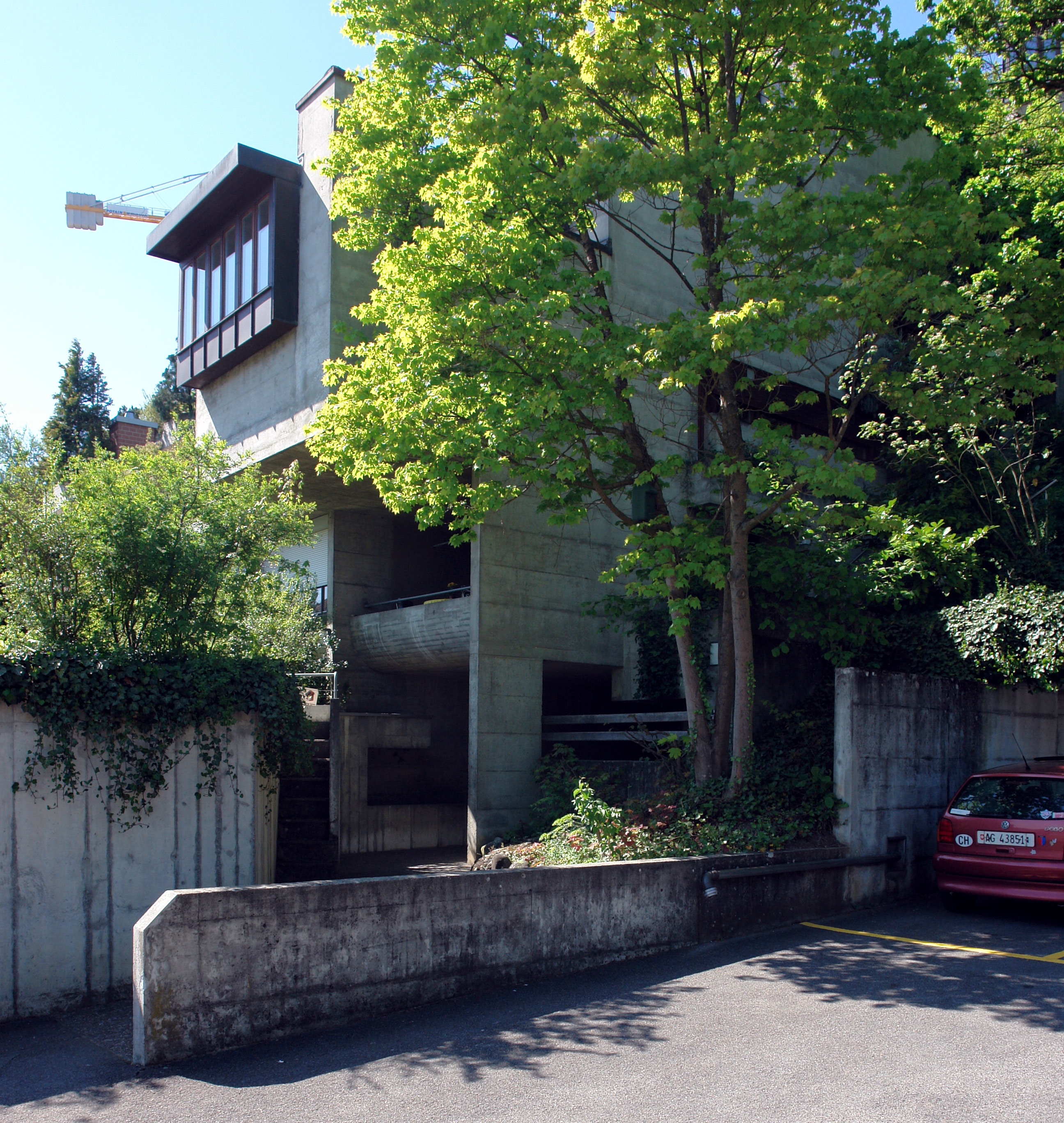 Terrassensiedlung Mühlehalde, 40 estates, built 1963-71, Architects: Scherer, Strickler + Weber, Zürich, Metron, Brugg